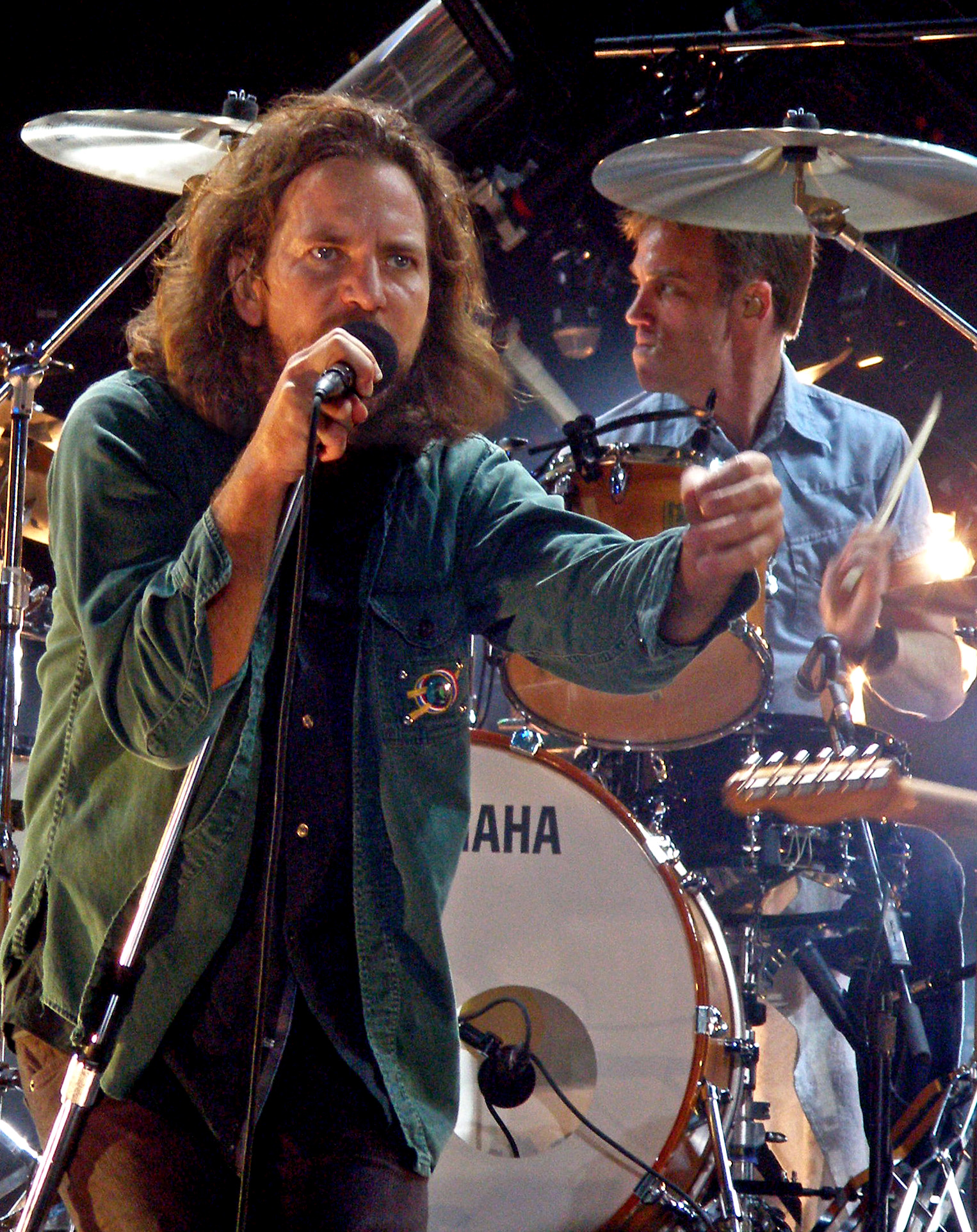 Eddie Vedder onstage with Pearl Jam, Albany, 2006.